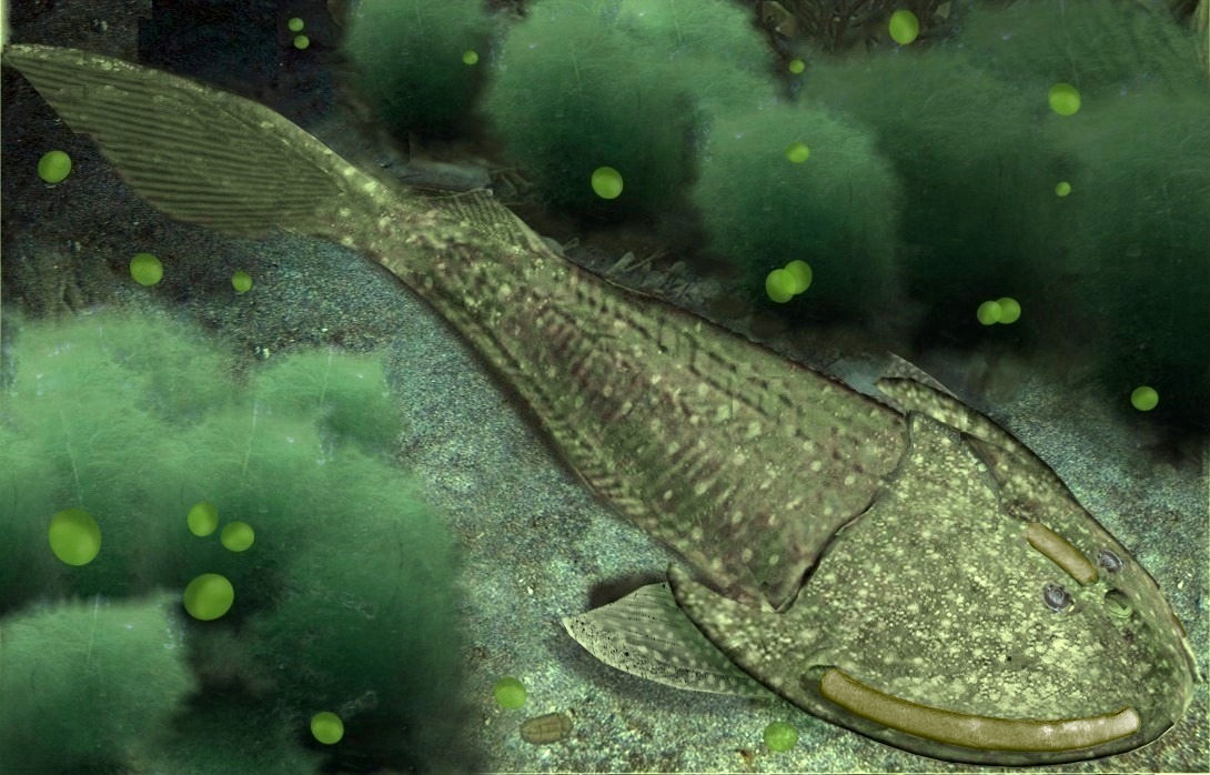 A digital recreation of a ostracoderm.